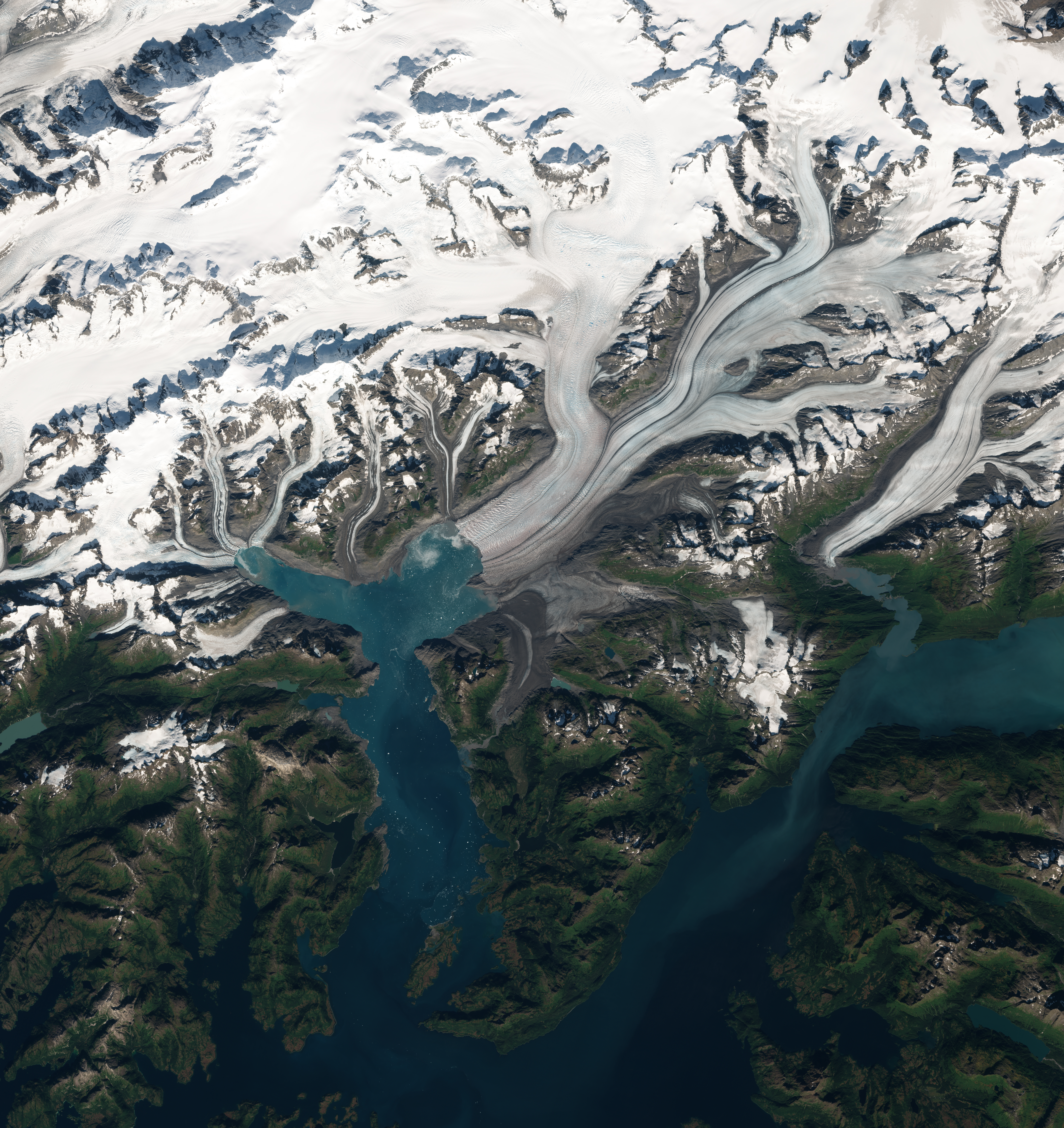 Date: 2018-09-09 Sensor: MSI on Sentinel-2B Resolution: 10m RGB Composites: True color, Band 4-3-2